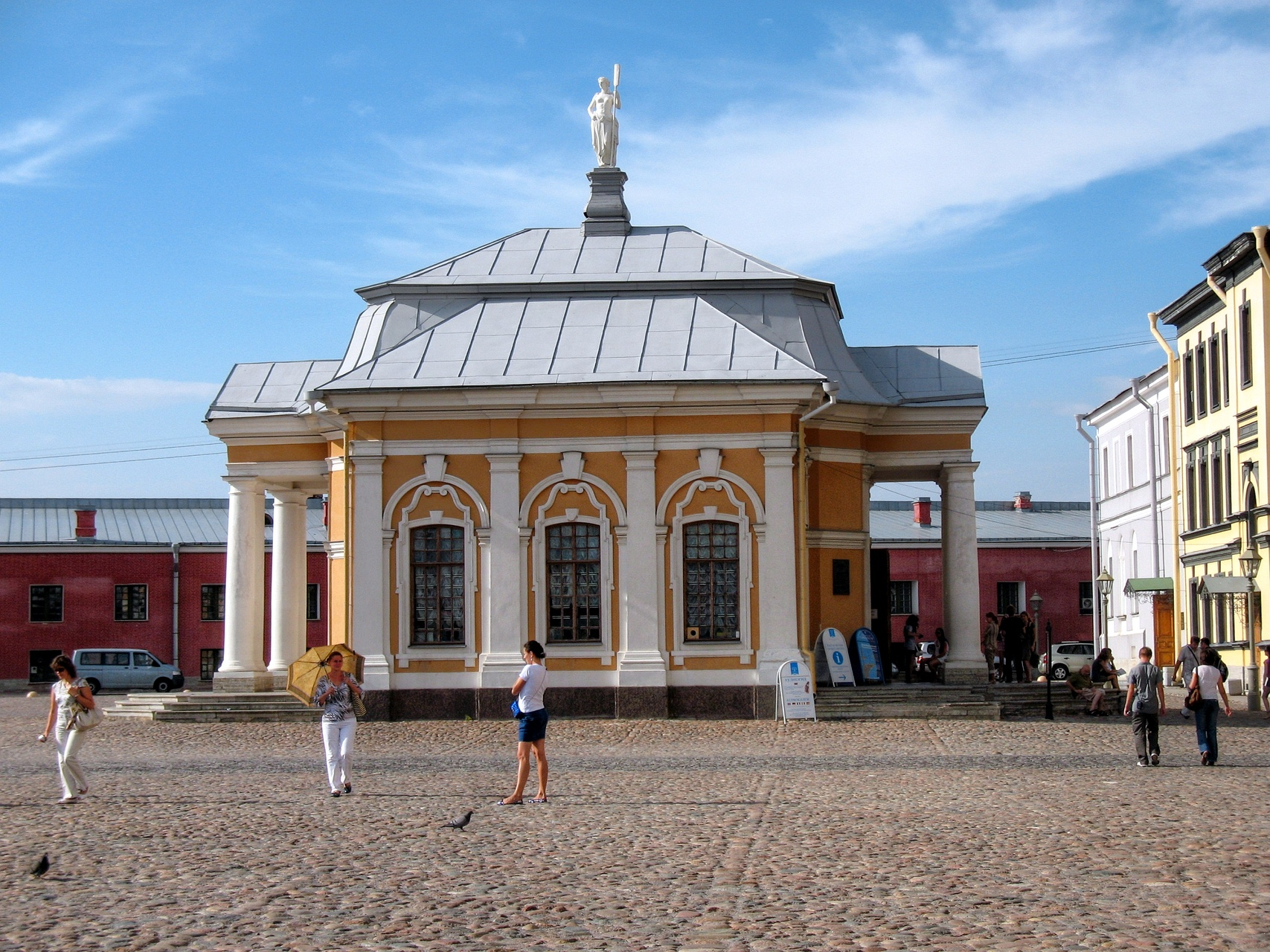 Saint Petersburg. Peter and Paul Fortress. Boat House